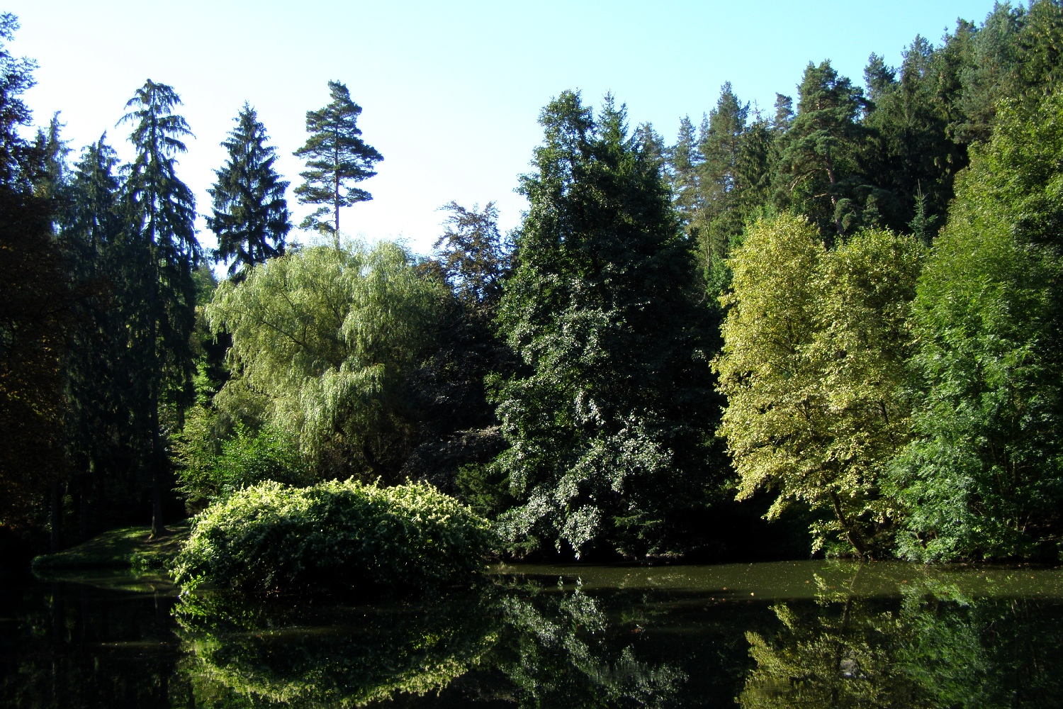 Třebíč-Domky. Libuše valley. Mácha lake